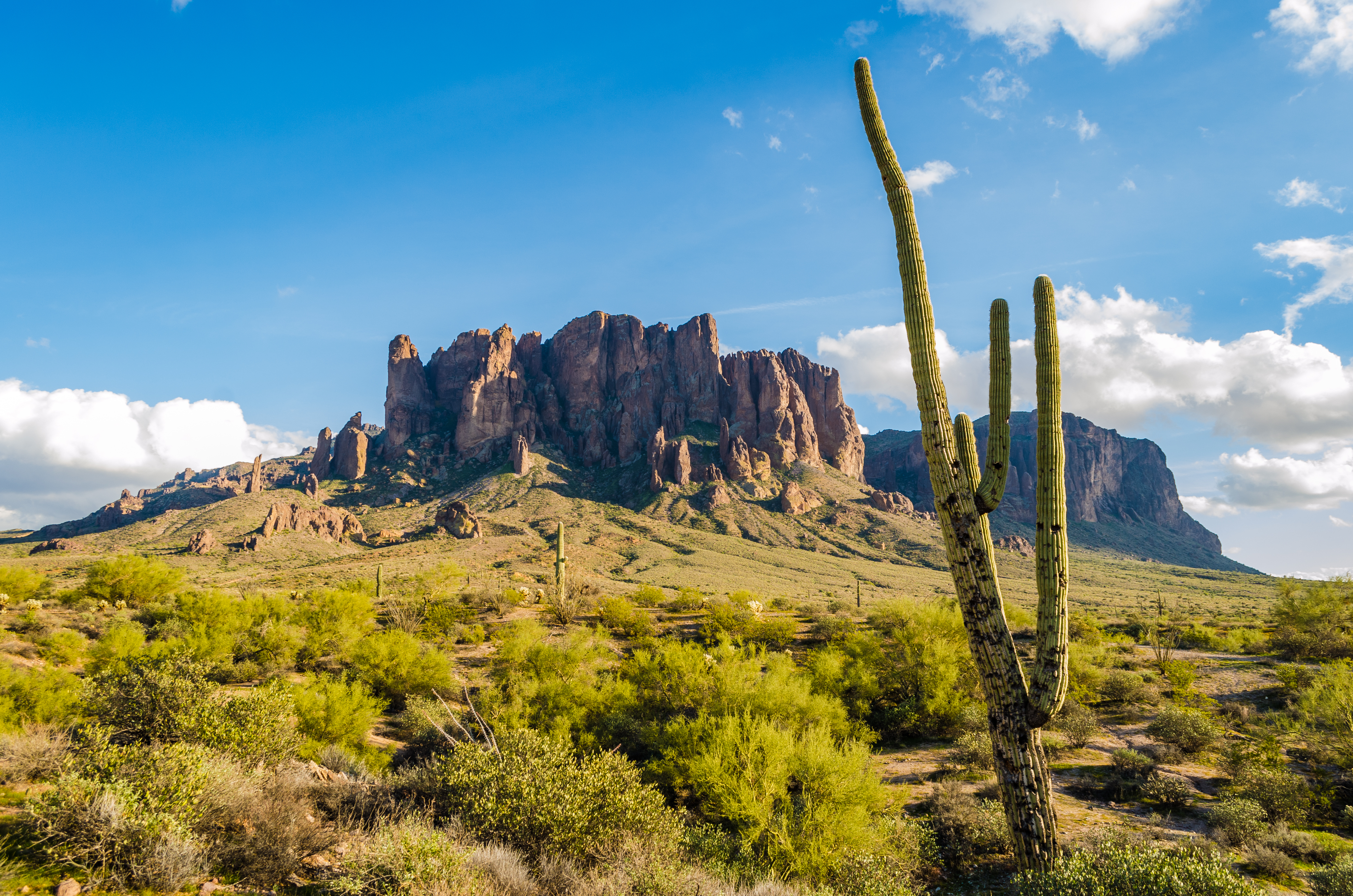 The Superstition Mointain rises some 3,000 feet above the surrounding desert floor and dominates the eastern fringe of the Salt River Valley. The mountain is part of the Superstition Winderness Area which contains some 159,780 acres or 242 sq. miles of the Tonto National Forest and includes a wide-range of flora indigenous to the Sonoran Desert like giant Saguaro cactus, Desert Broom, Red Yucca, Cholla.